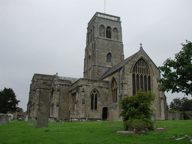 The parish church, Wedmore, Somerset